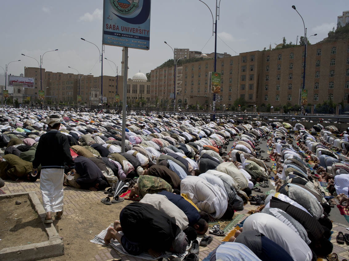 Prayers druing the Ramadan in Sana'a